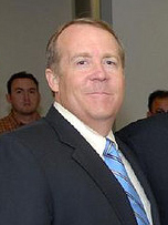 This is a photo of Jim Battin. I cropped Jim Battin from the original photo at Flickr.